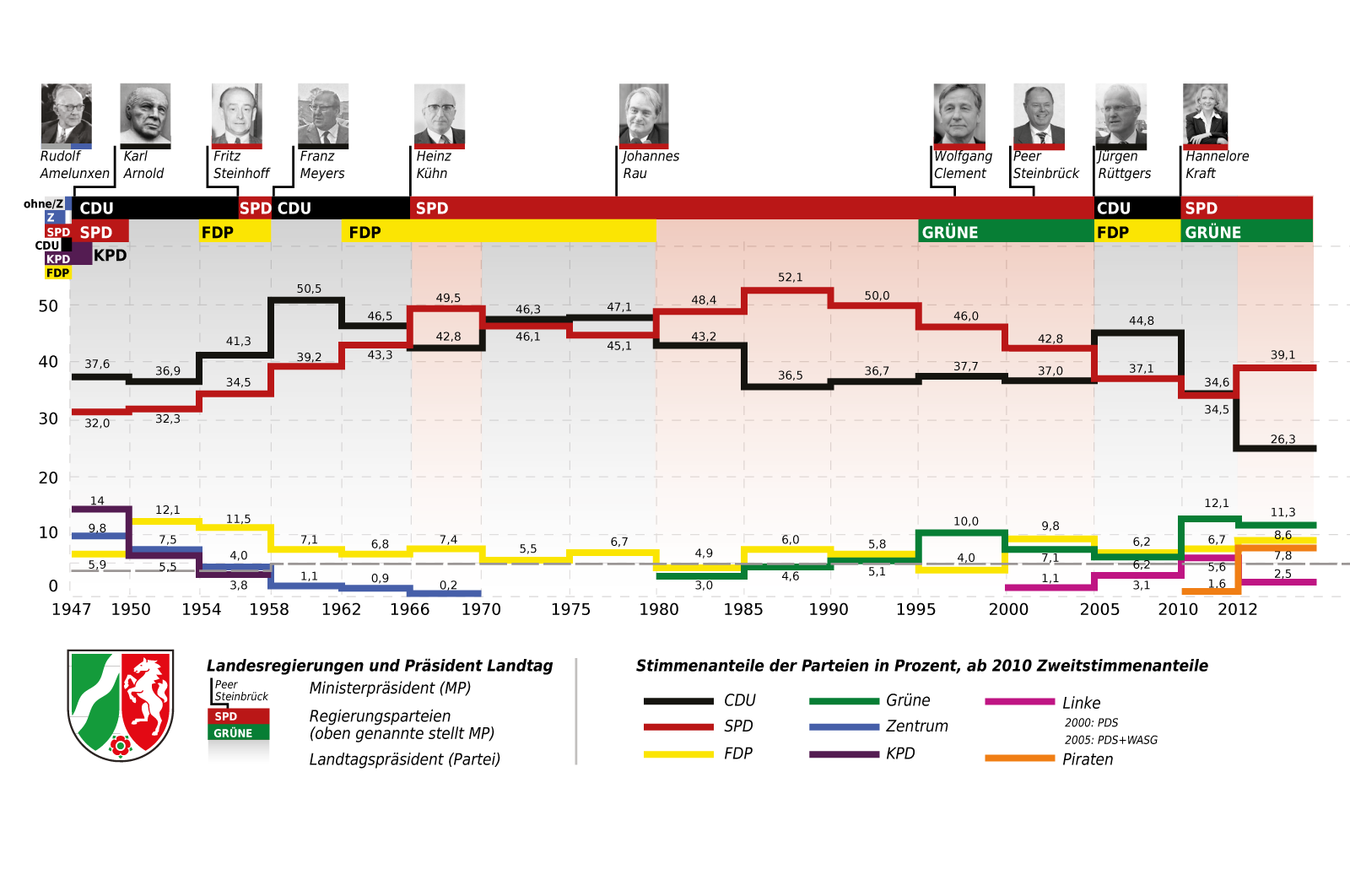 State elections and administrations in North Rhine-Westphalia, Germany.